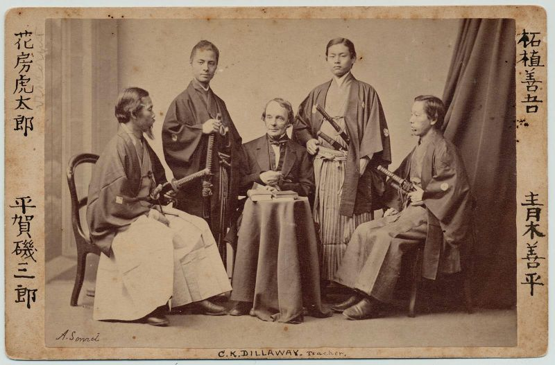 Portrait of C. K. Dillaway with Hanabusa Kotaro, Hiraga Isasaburo, Tsuge Zengo, and Aoki Yoshihira. Meiji era. late 19th century. Photograph. 10.9 x 16.5 cm (4 5/16 x 6 1/2 in. ). Museum of Fine Arts, Boston